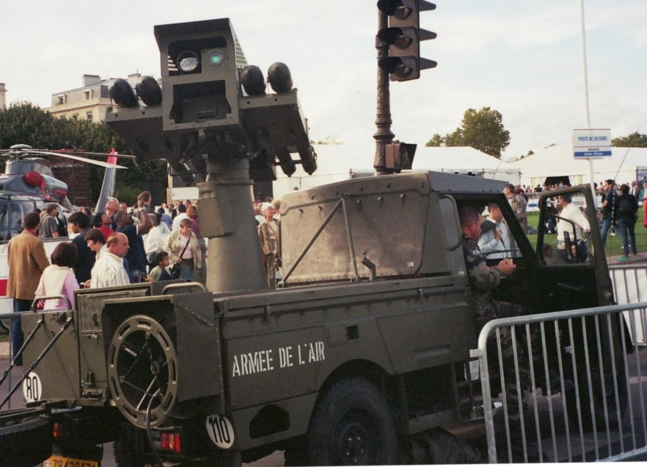 Mistral anti-aricraft weapon system, Nation/Defense days, Esplanade des Invalides, Paris, France, September 24-25, 2005